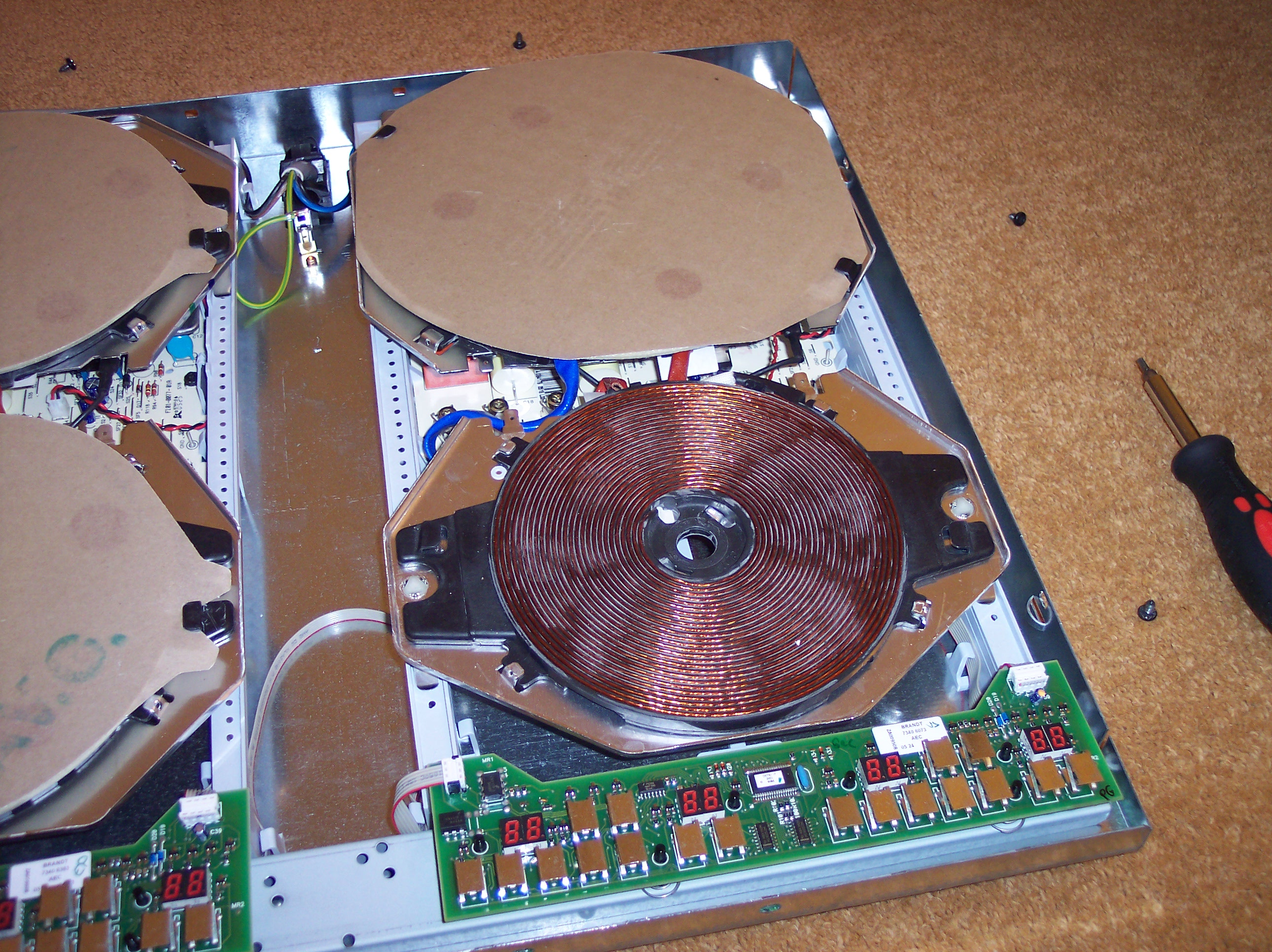 Inside of an Induction cooker showing the coil and electronics.